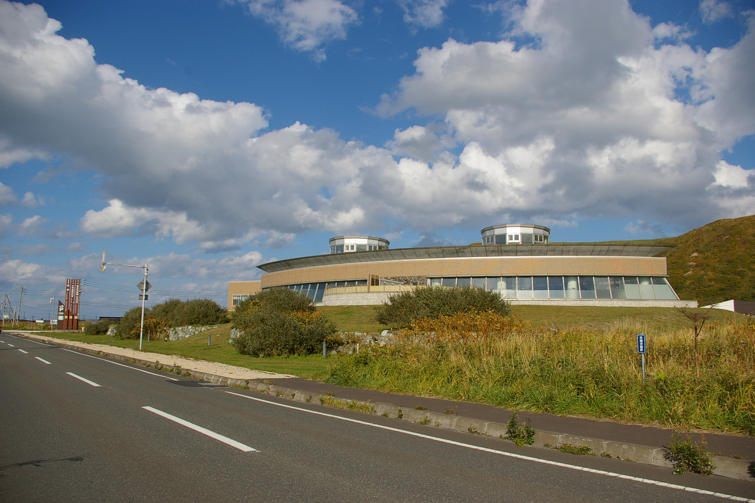 Wakkanai hot spring "DOME" , It is the northernmost tip in Japan.